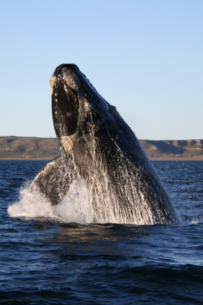 Southern right whale (Peninsula Valdés, Patagonia, Argentina)